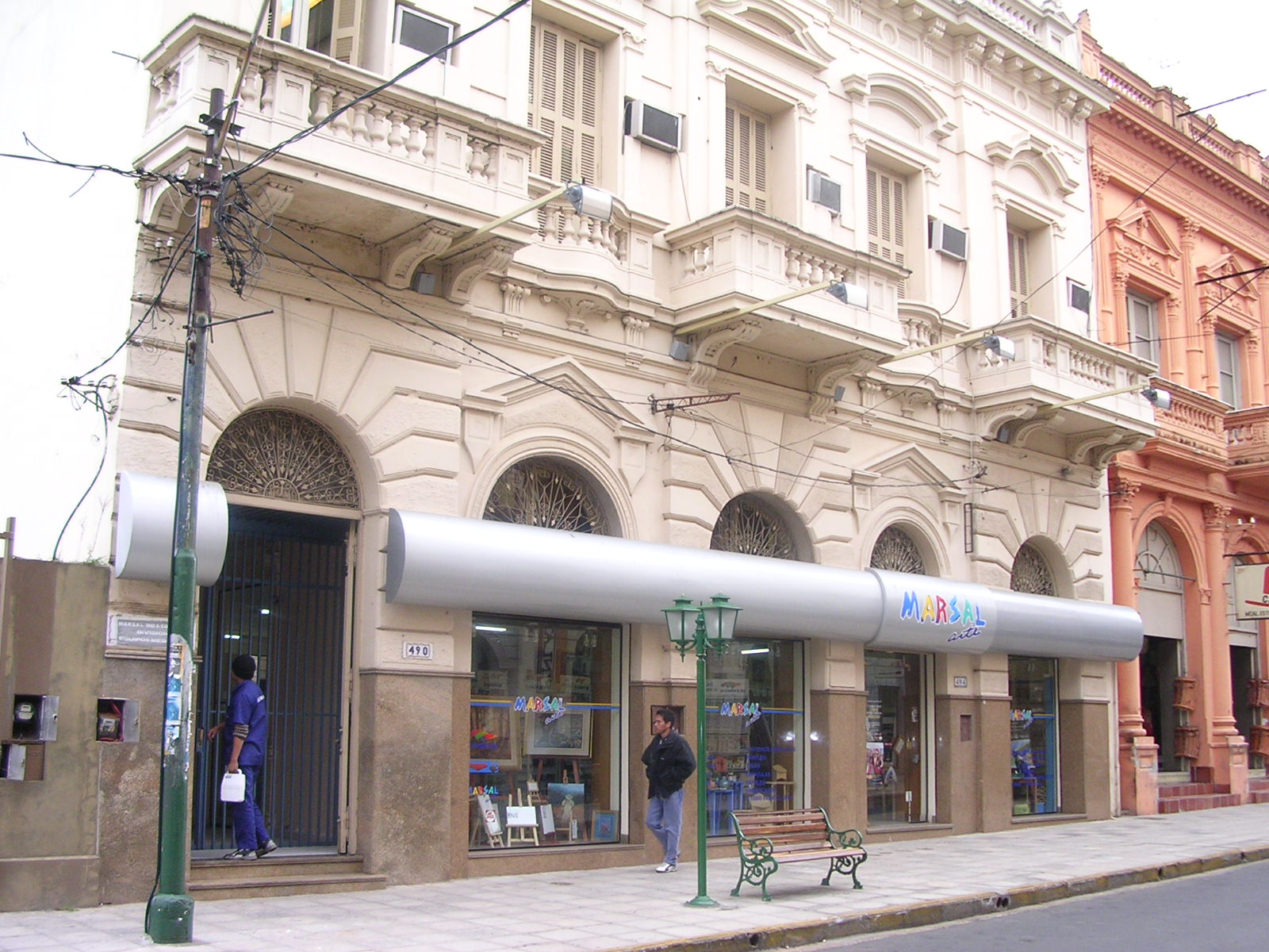 Traditional buildings in Calle Palma, Asuncion, Paraguay.